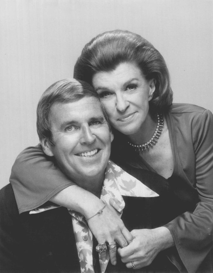 Publicity photo of American entertainers, Paul Lynde, and Nancy Walker promoting his November 6, 1975 ABC television special, The Paul Lynde Comedy Hour.